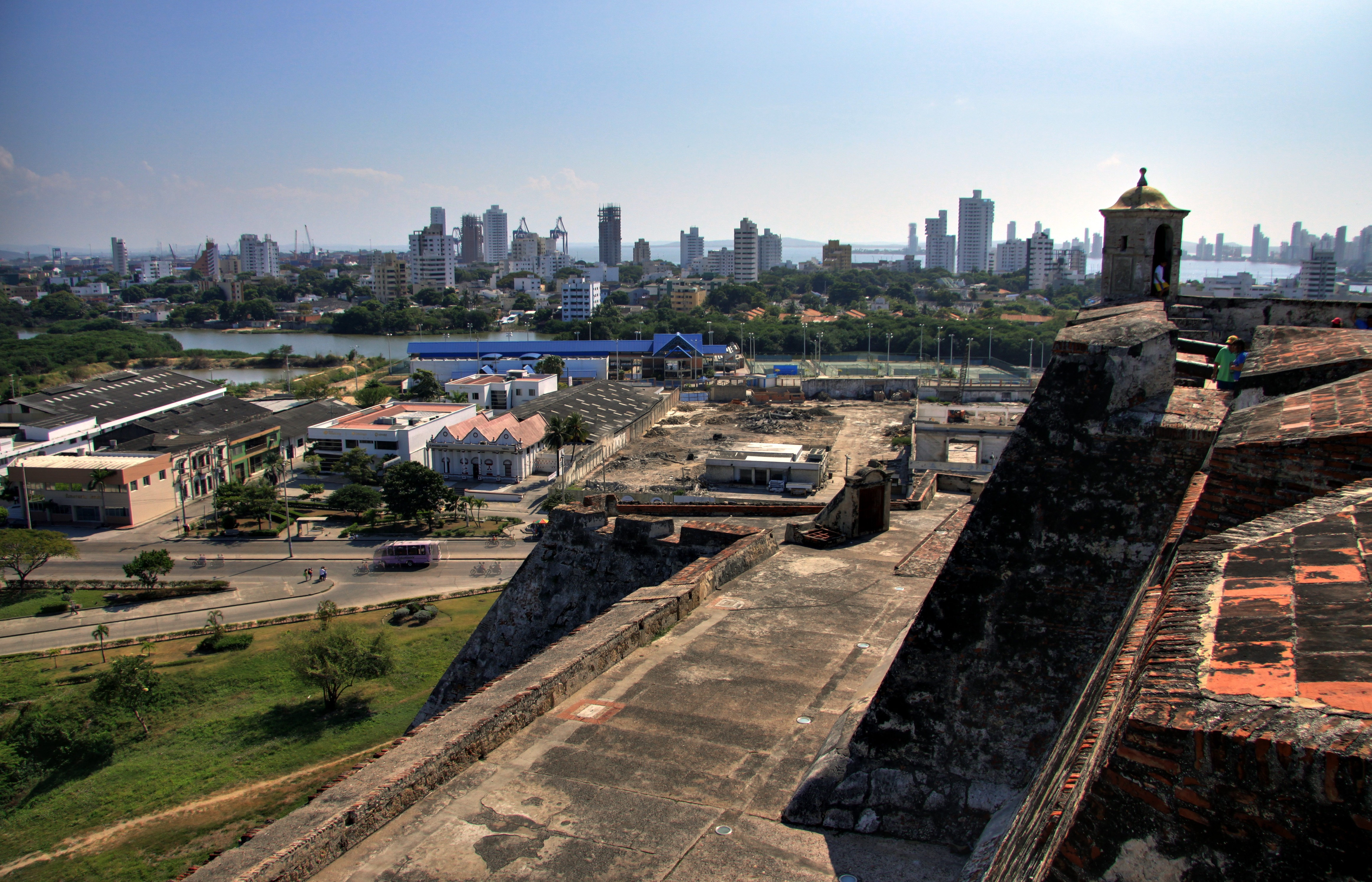 Please, have this description accessible to all by translating it in different languages.